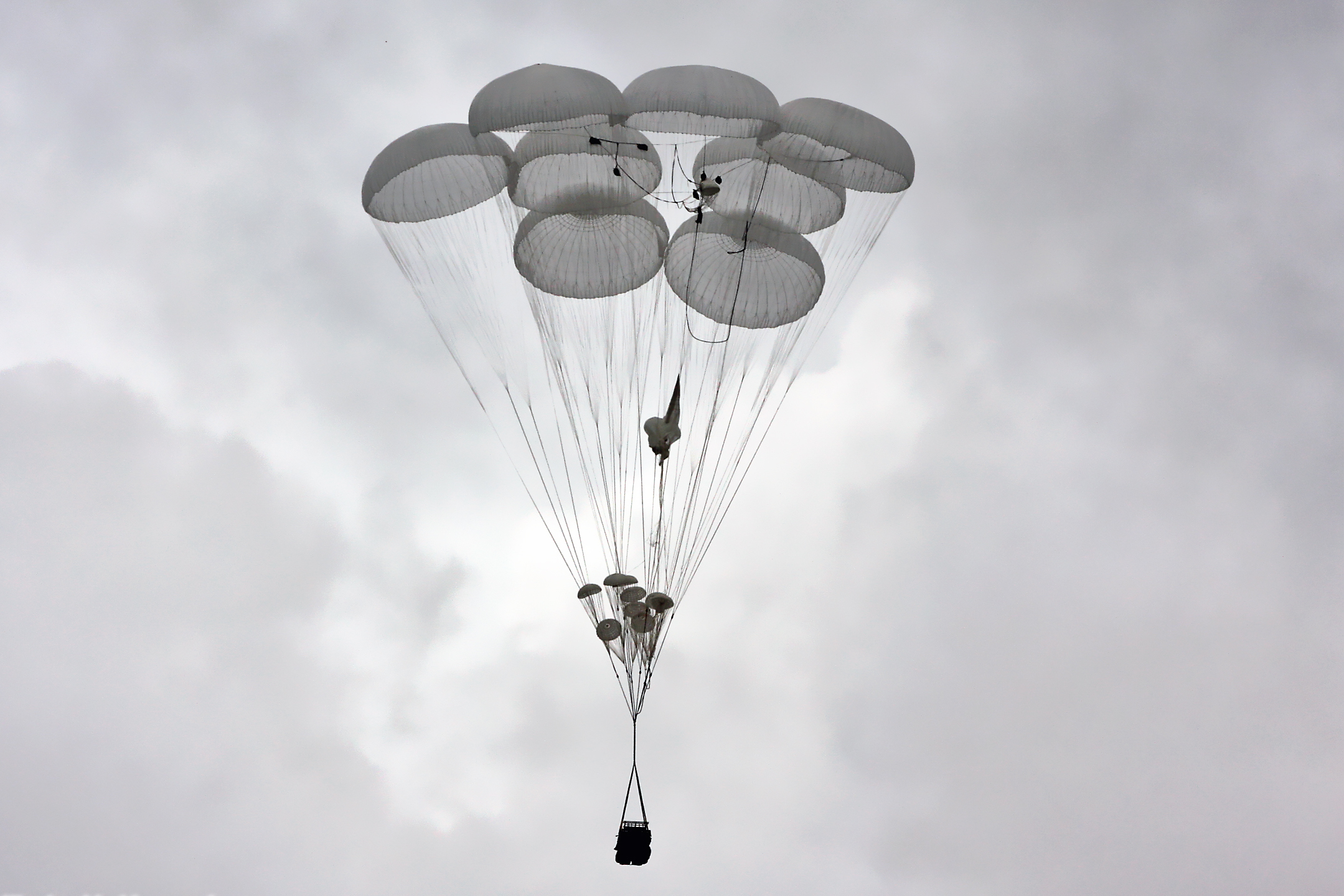 First the vehicles were dropped